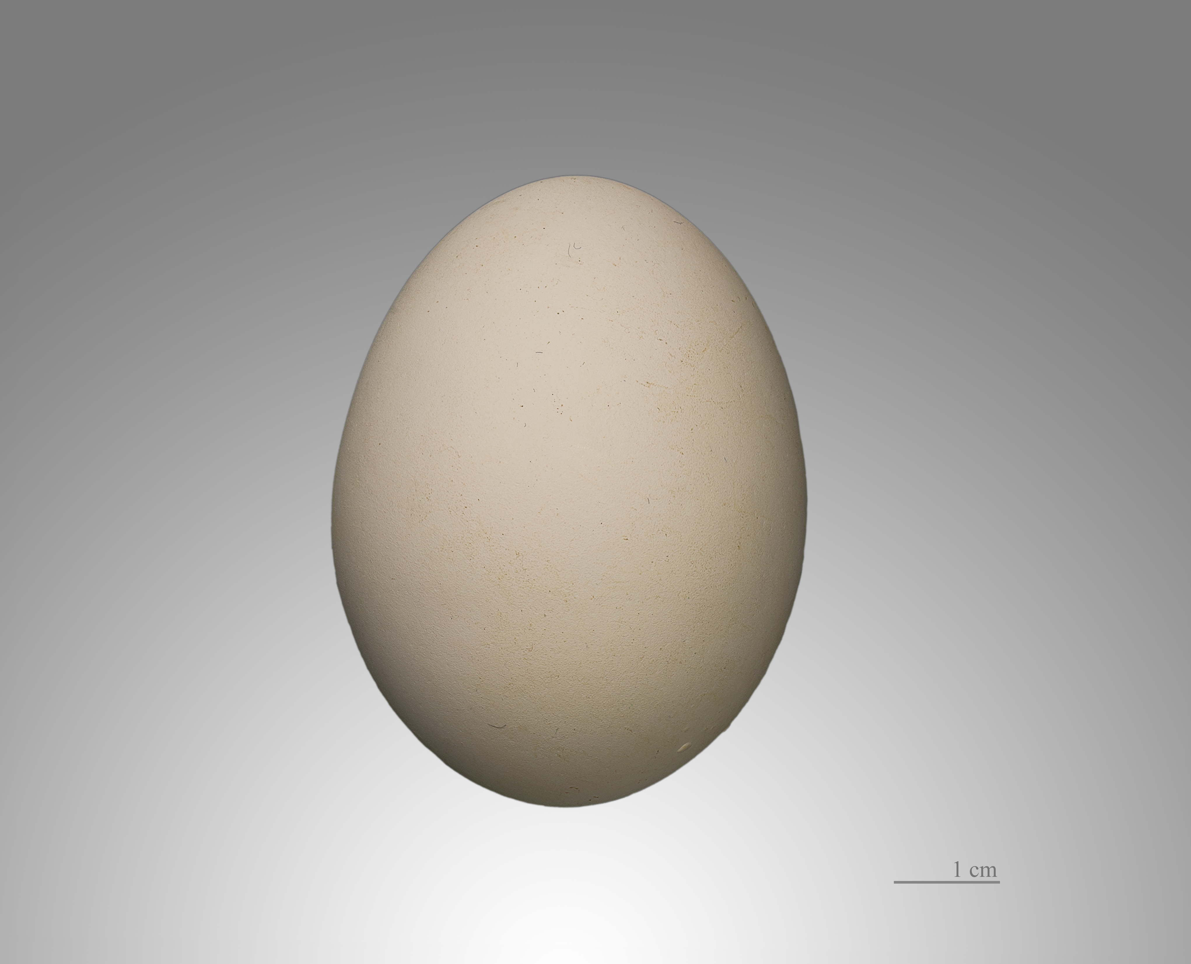 Egg of Abdim's Stork. Collection of Jacques Perrin de Brichambaut. Locality: Niamey, Niger.